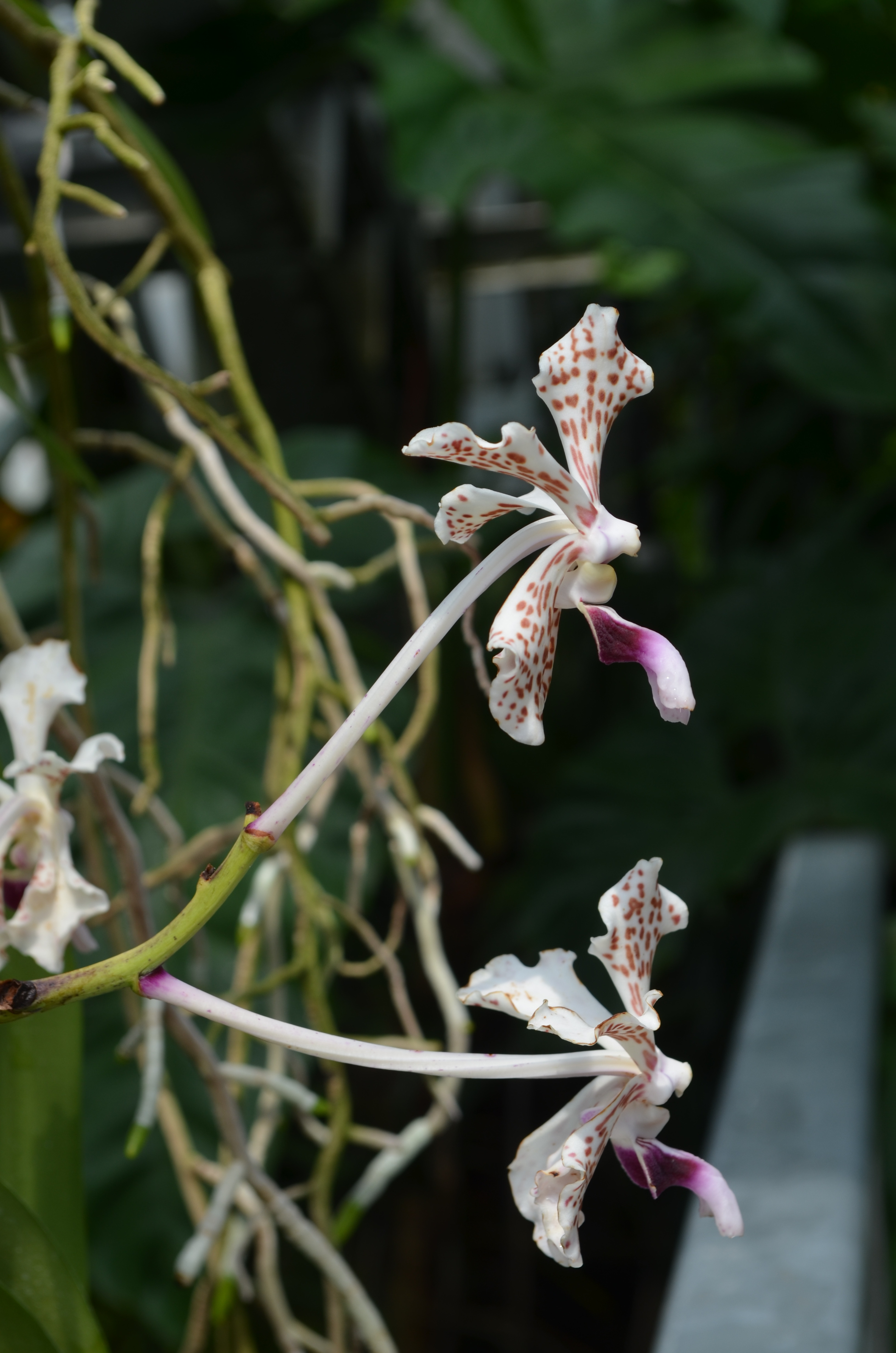 Vanda denisoniana var. hebraica at the Berlin Botanic Garden